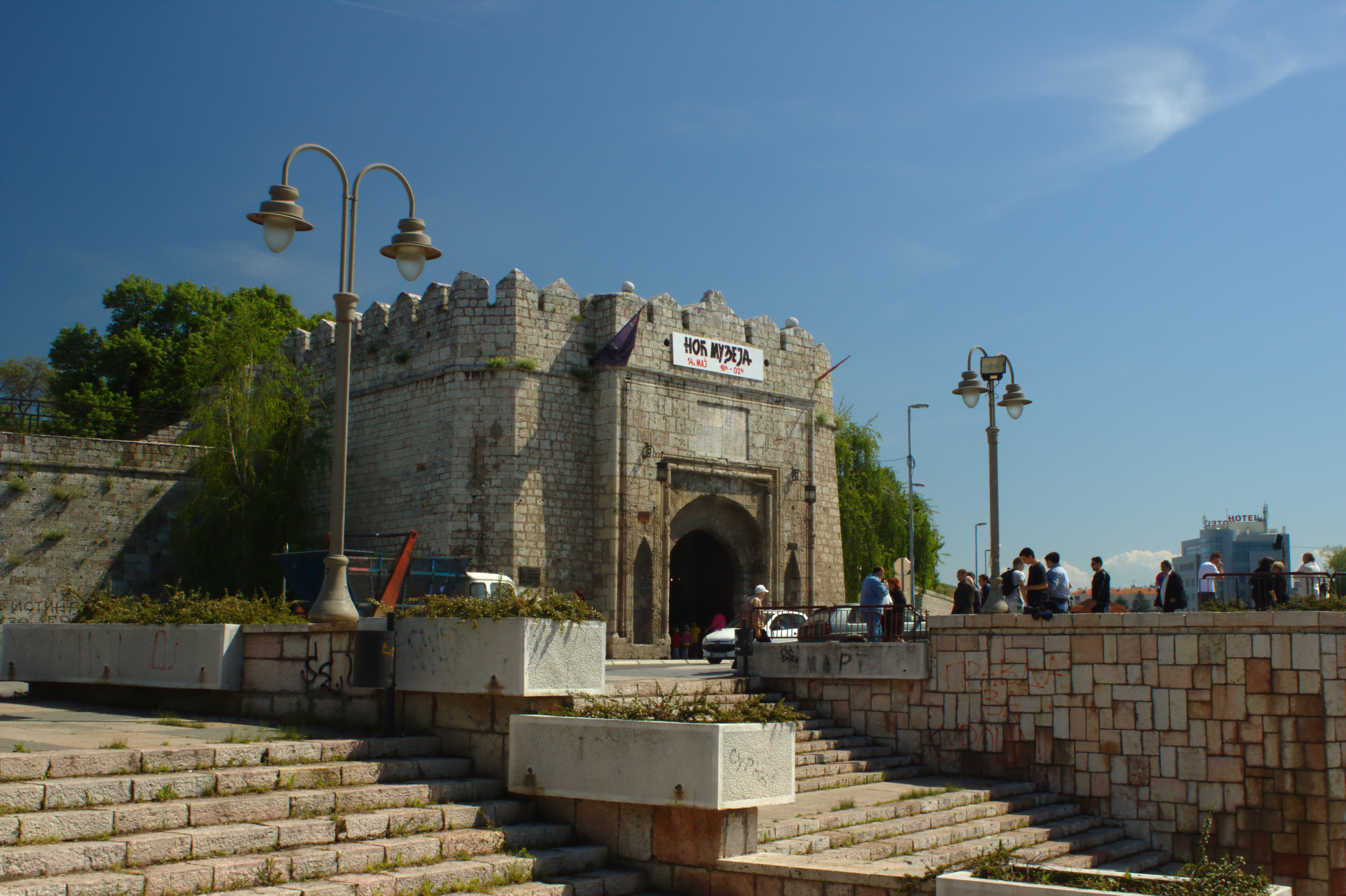 Niš Fortress gate seen from Nišava riverbank. An advertisement for Museum Night can be seen in the foreground, Serbia